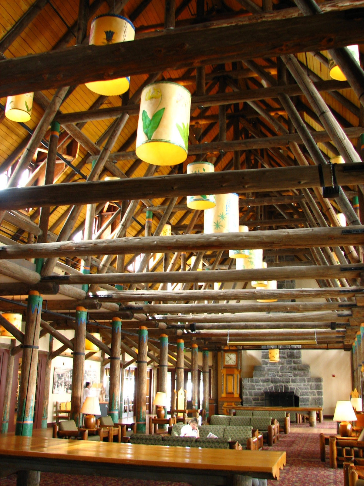 The Great Room of the historic Paradise Inn, located in Mount Rainier National Park, Washington state, United States.